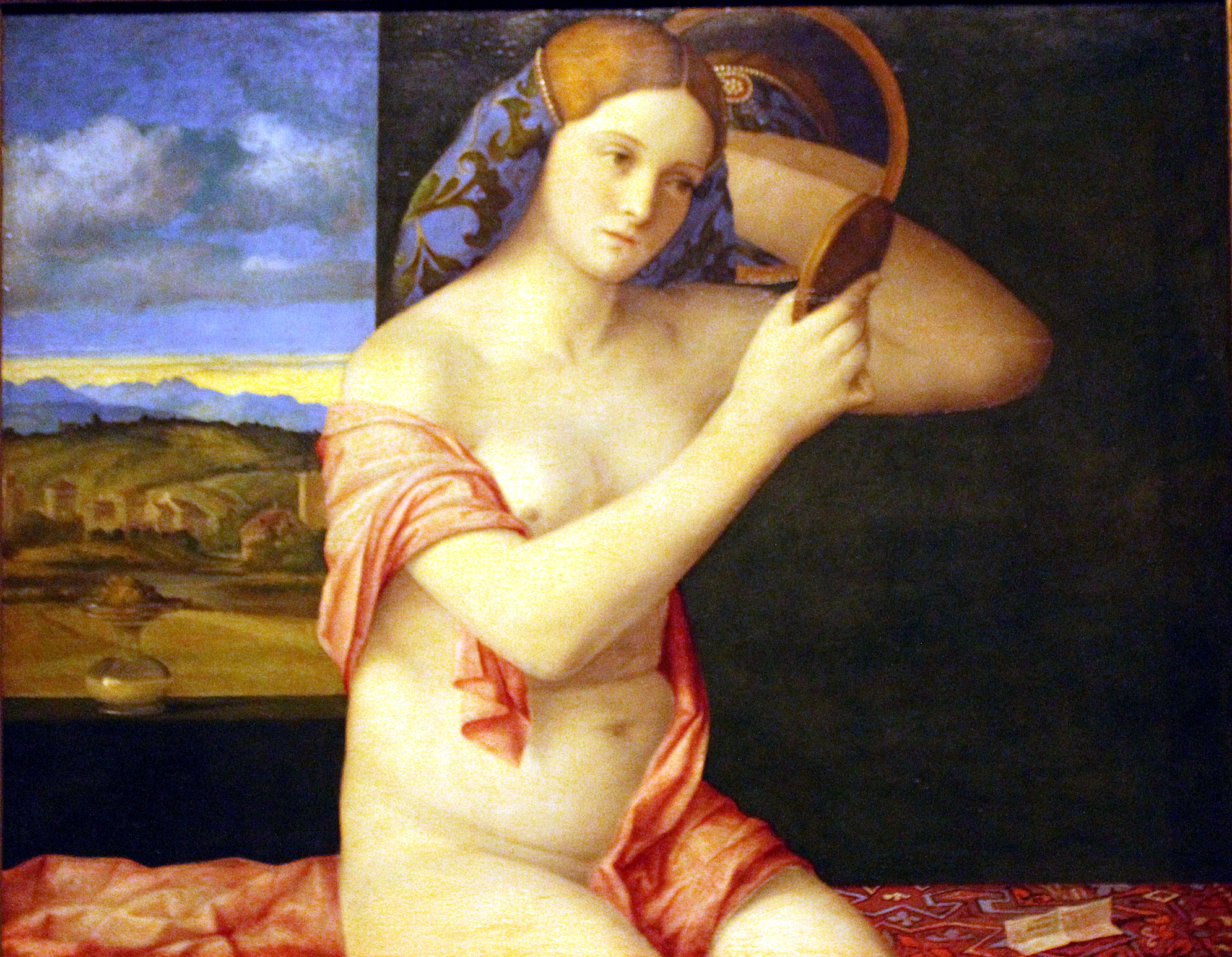 Vienna, Museum of Art History, Giovanni Bellini, young woman in front of the mirror